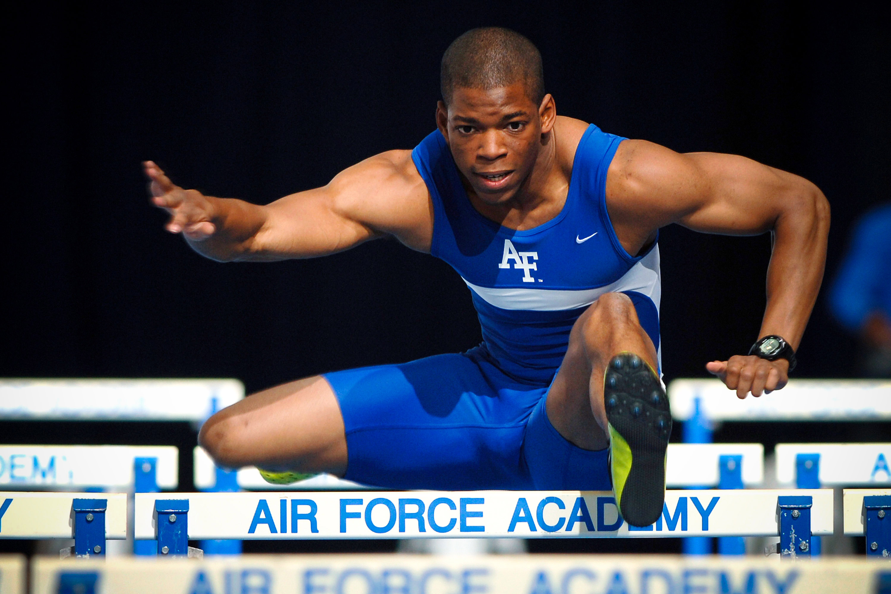 Air Force Academy junior Kellen Curry running the 60-meter men's hurdles at the Air Force All-Comers Meet Jan. 13, 2008 at Colorado Springs, Colo. (U.S. Air Force photo/Mike Kaplan)